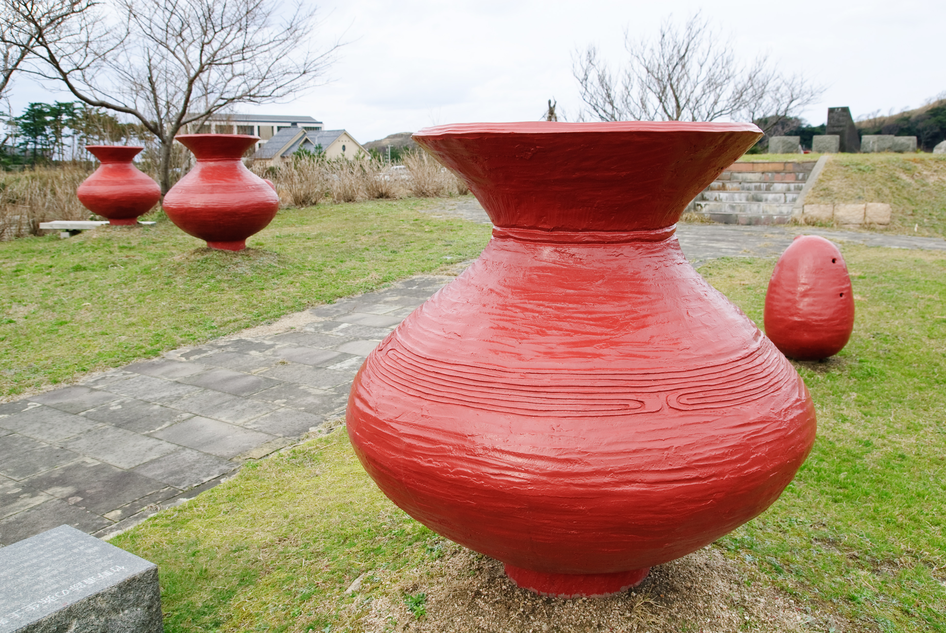 Earthenware monuments at Michinoeki Tenki Tenki Tango in Kyotango City, Kyoto Prefecture, Japan